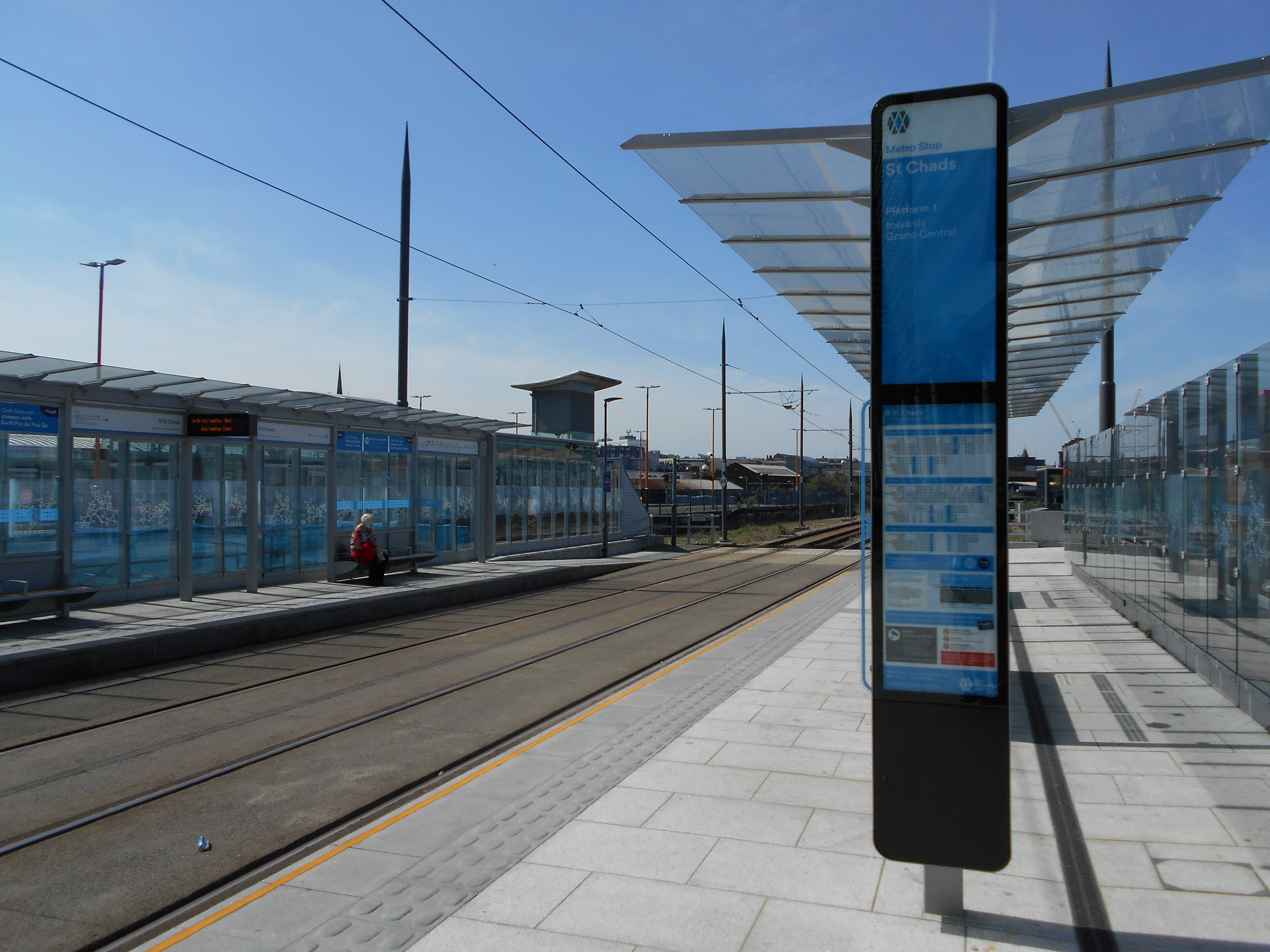 St Chads tram stop, looking towards Wolverhampton.